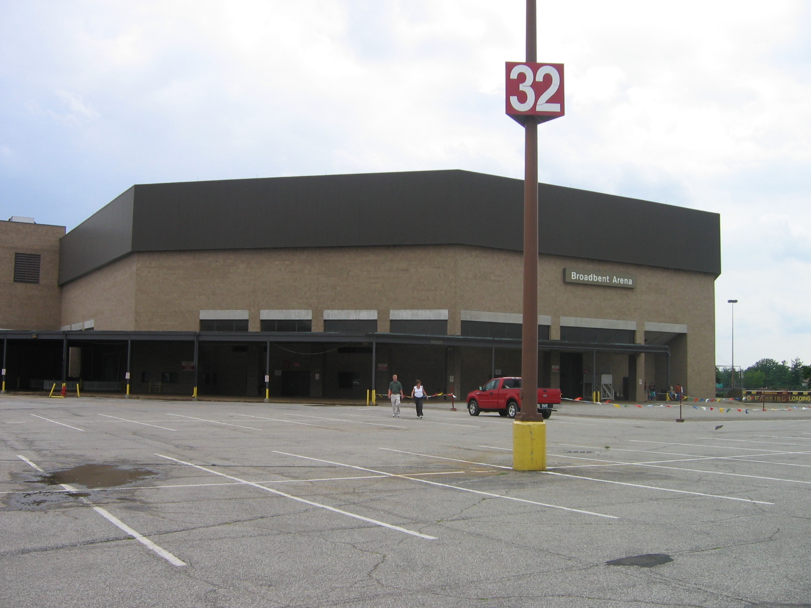 Football & Basketball Facilities Louisville Fairgrounds Arena